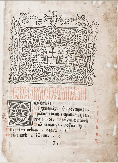 The Four Gospels of Mrkšina crkva printing house